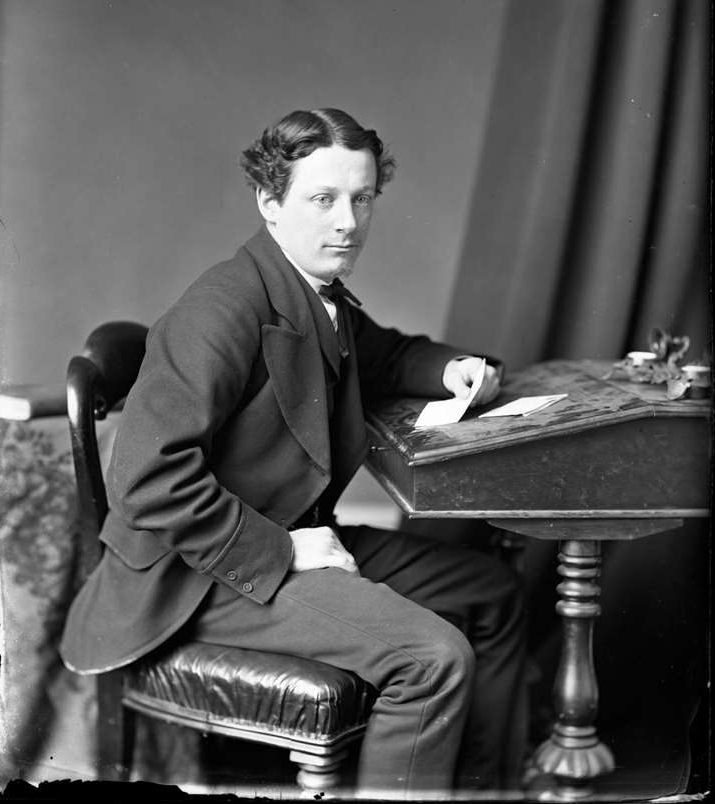 Self-portrait by artist and photographer William Silas Spanton (1845-1930)